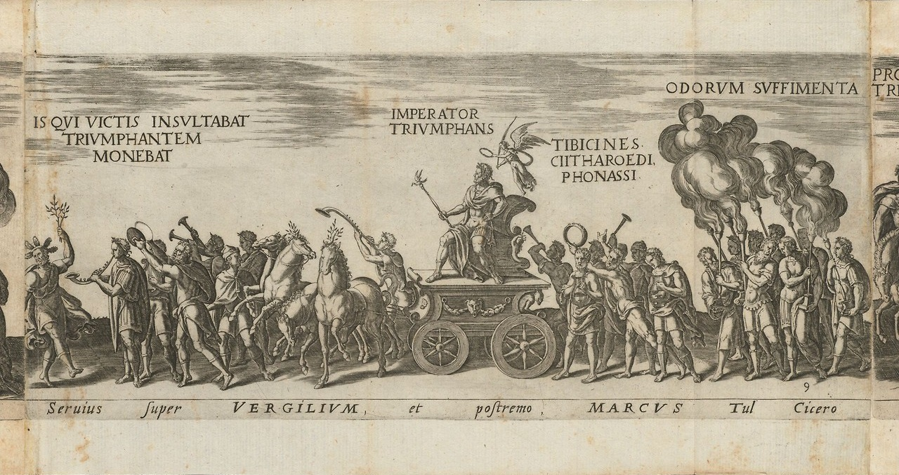 One of twelve engravings depicting Roman emperors from Amplissimi ornatissimiq[ue] triumphi, 1619, by Onofrio Panvinio (1529-1568). Together, the image is more than 14 feet long. Typ 625.18.672, Houghton Library, Harvard University